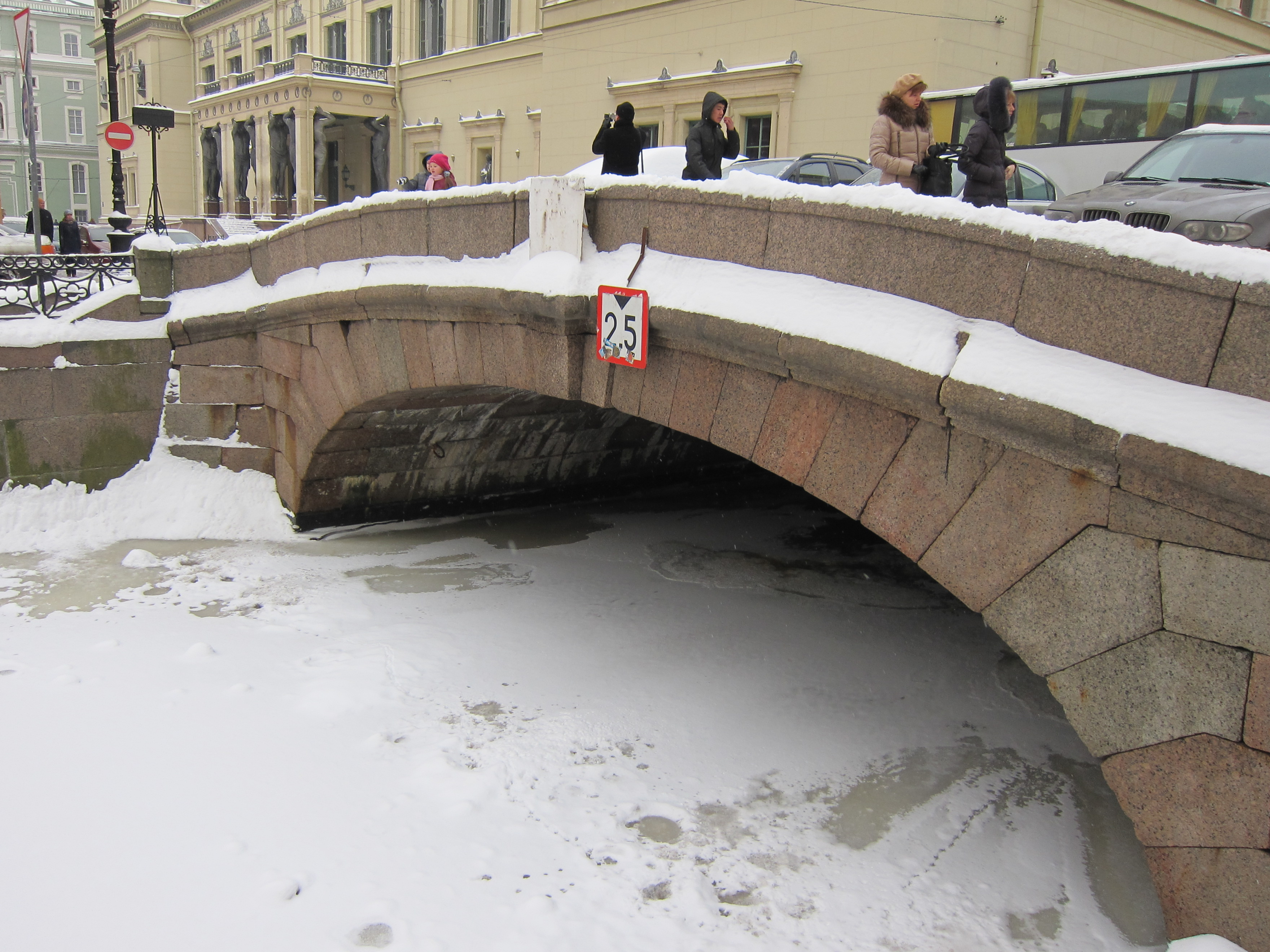 First Zimny bridge (Saint Petersburg) in December 2012